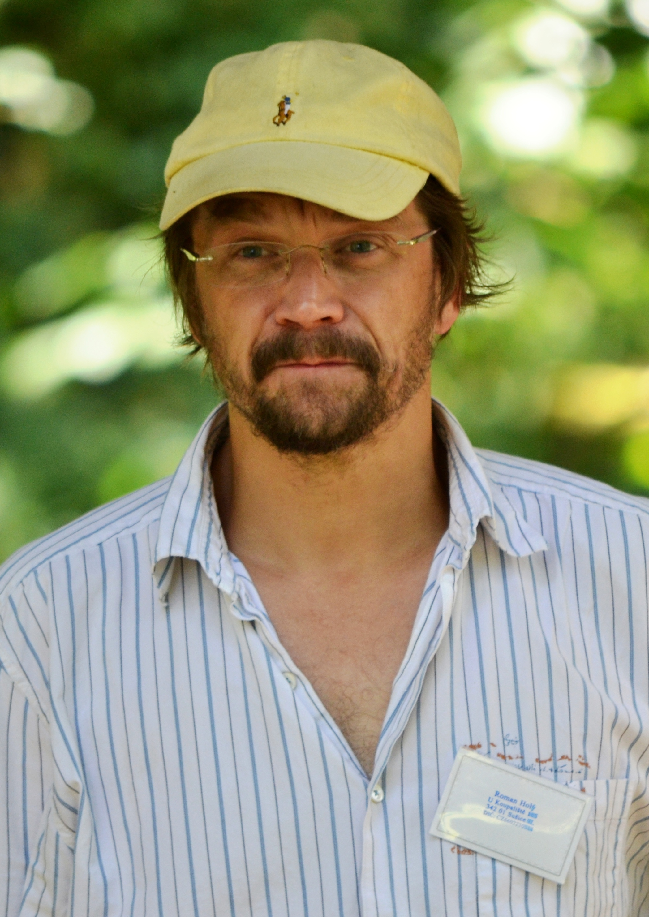 Dan Bárta, Czech vocalist